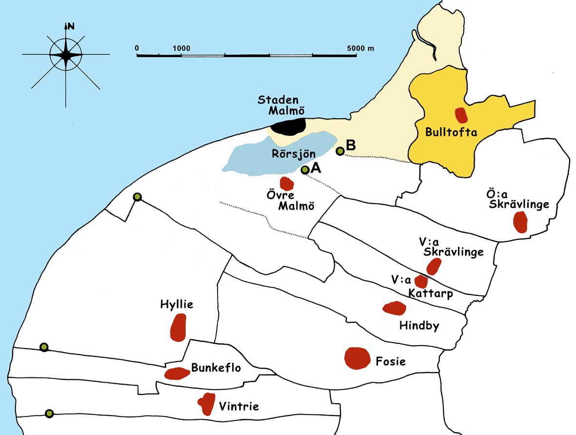 Reconstructed map of old Malmö, Sweden with villages nearby.